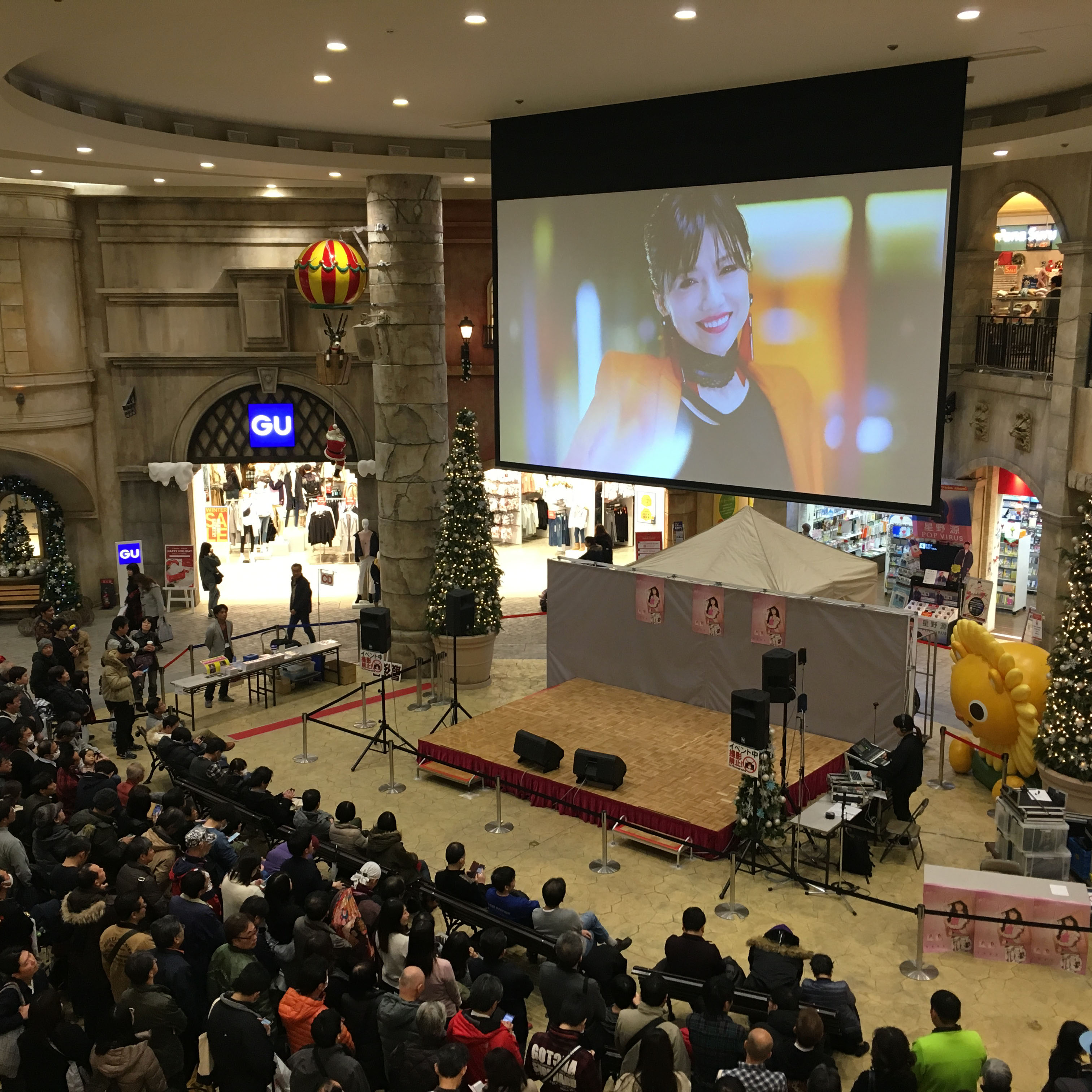 Event for the music album "misty" of Hitomi Shimatani, held at Tressa Yokohama (Shopping mall in Yokohama, Japan)